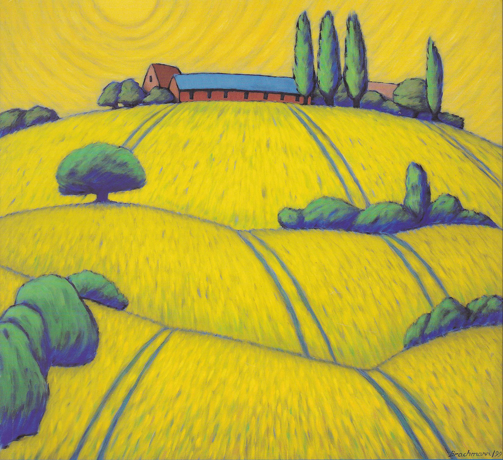 Boisterfelde with rape hill, 1999, Oil/canvas, 100 x 120 cm